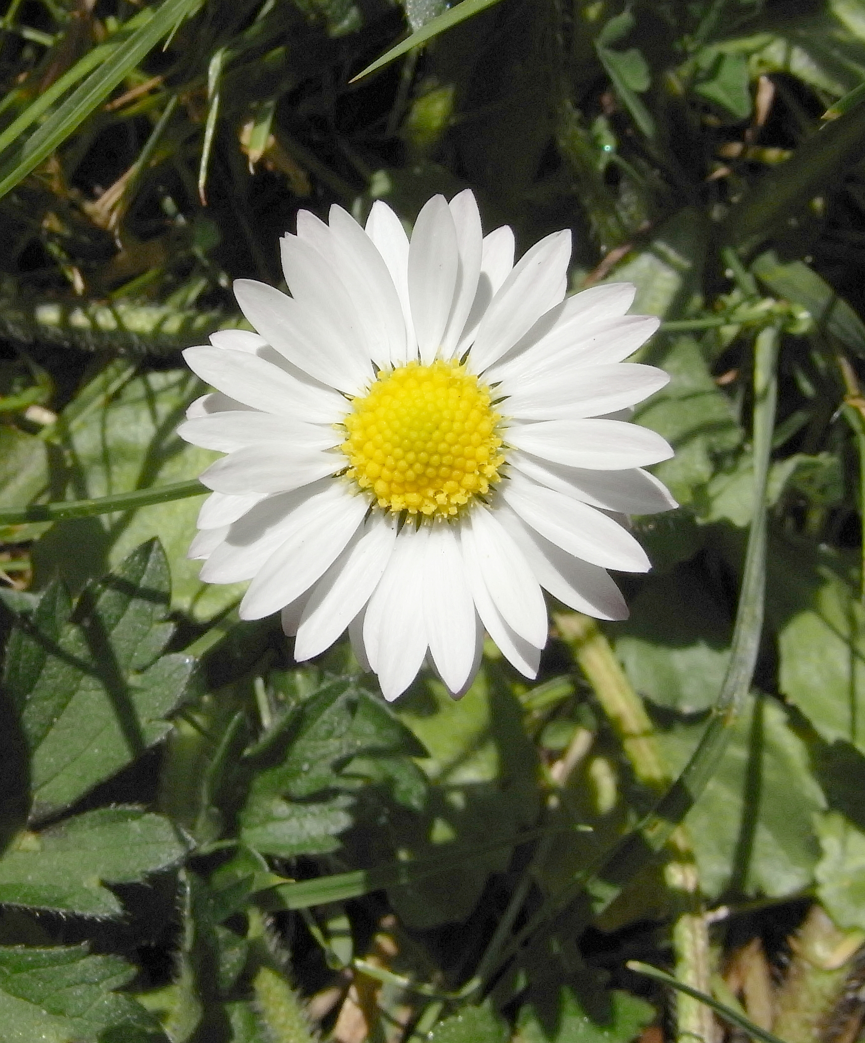 Bellis perennis